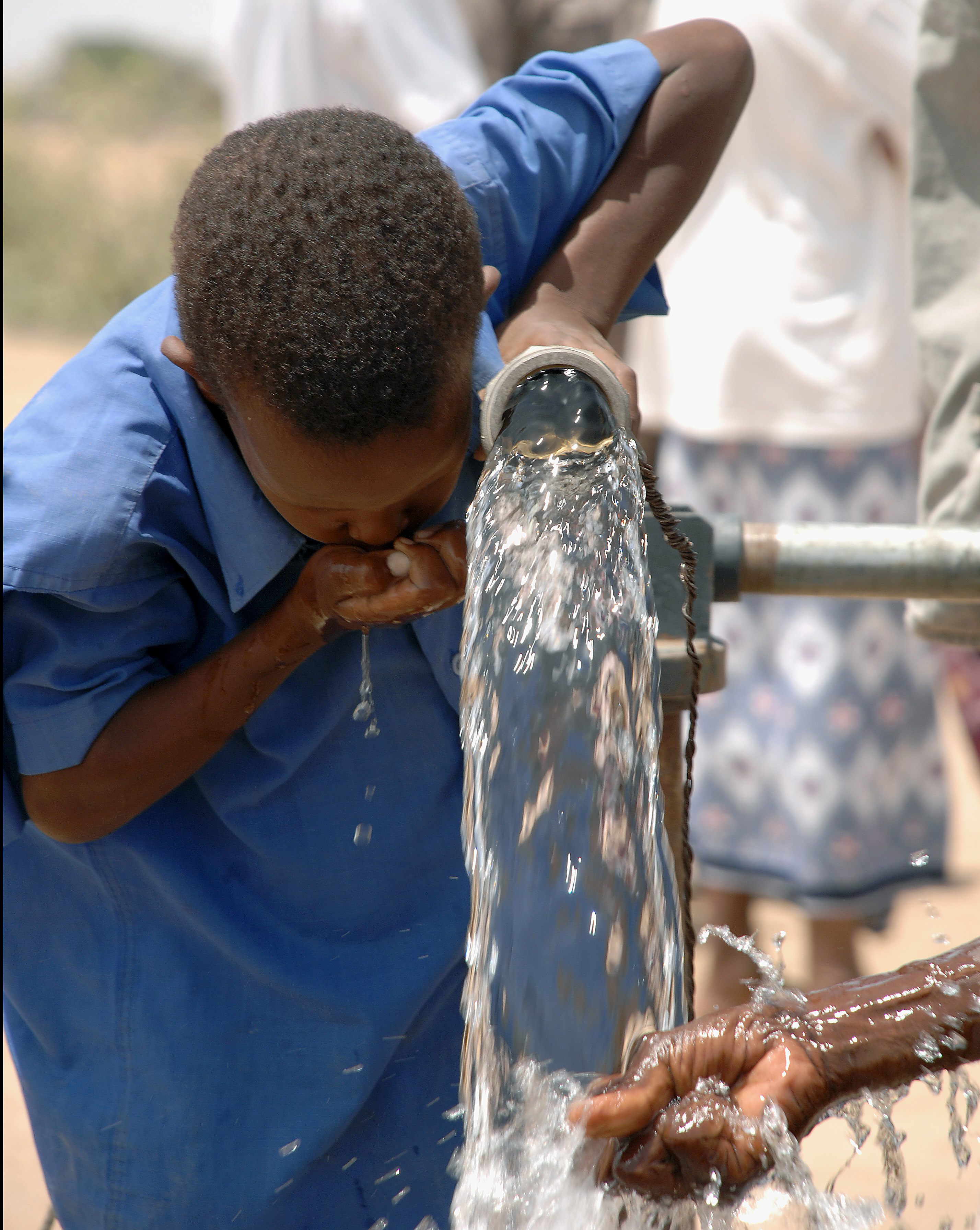 Shant Abak, Kenya. A child drinks water from a well built by Naval Mobile Construction Battalion 40 in Shant Abak. The well, which can pump about 25 gallons of water per minute, is one of two being built in the village and is part of several humanitarian projects by Combined Joint Task Force - Horn of Africa. The task force is comprised of service members representing all the U.S. military services and conducts unified action in the Combined Joint Operations Area-Horn of Africa to prevent conflict, promote regional stability and protect coalition partners.